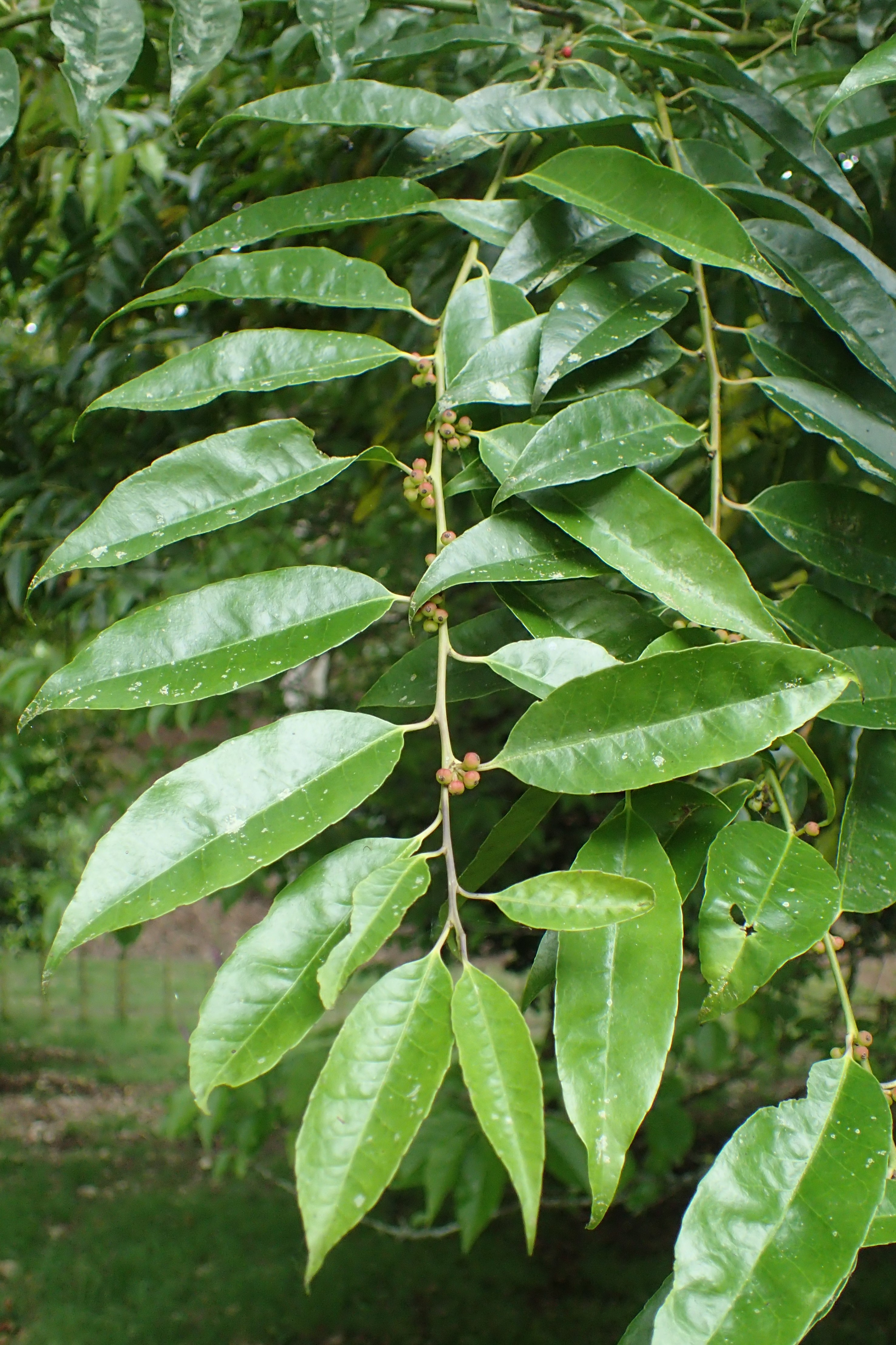 Ilex corallina in Hackfalls Arboretum, Hawkes's Bay, NZ